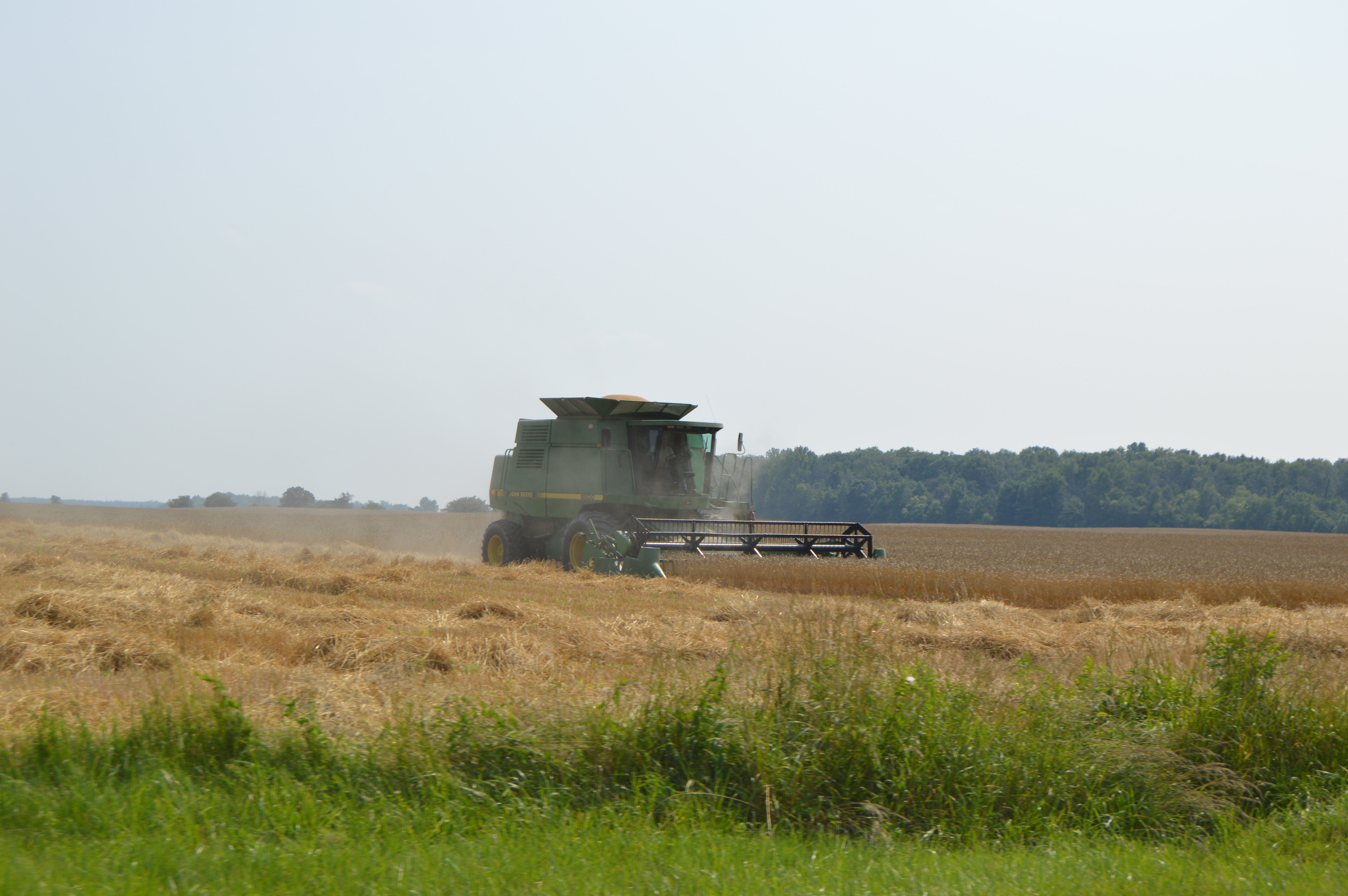 Harvesting wheat in northwestern Ohio in July. Photo looks south from the junction of Township Roads 97 and 235 just south of McComb in Pleasant Township, Hancock County, Ohio, United States.